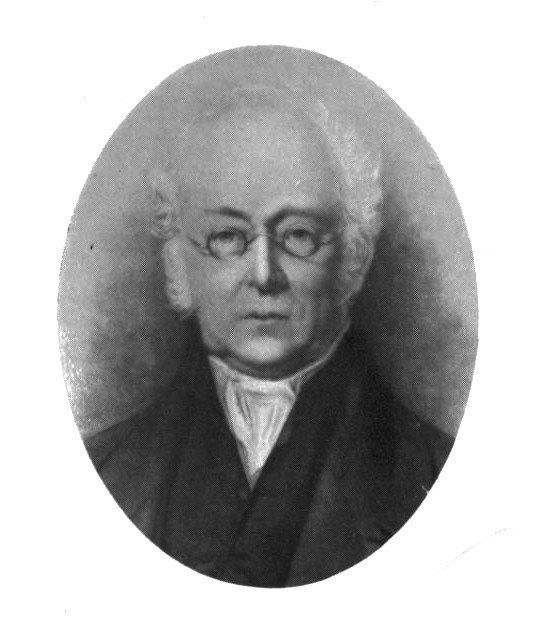 James Veitch senior(1792-1863), Horticulturist The subject is long-deceased, and the photo was probably taken before 1900 - the photographer is presumably unknown.